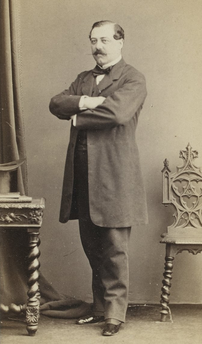 Paul Bernard Labrosse Luuyt